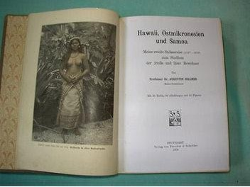 Augustin Kraemer: Hawaii, Ostmikronesien und Samoa